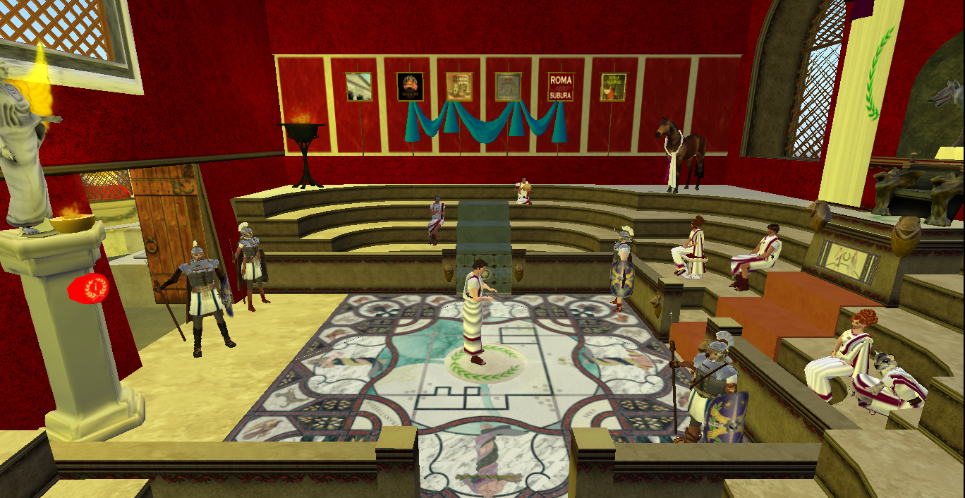 Inside the senate in ROMA, a virtual ancient Rome in Second Life.